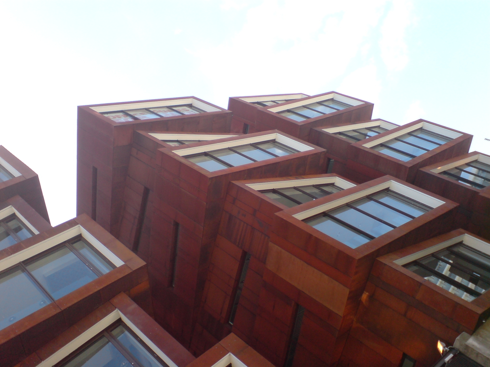 Ironbank, an award-winning building in Auckland City, New Zealand.